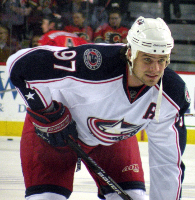 Columbus Blue Jackets defenceman Rostislav Klesla prior to a National Hockey League game against the Calgary Flames, in Calgary.